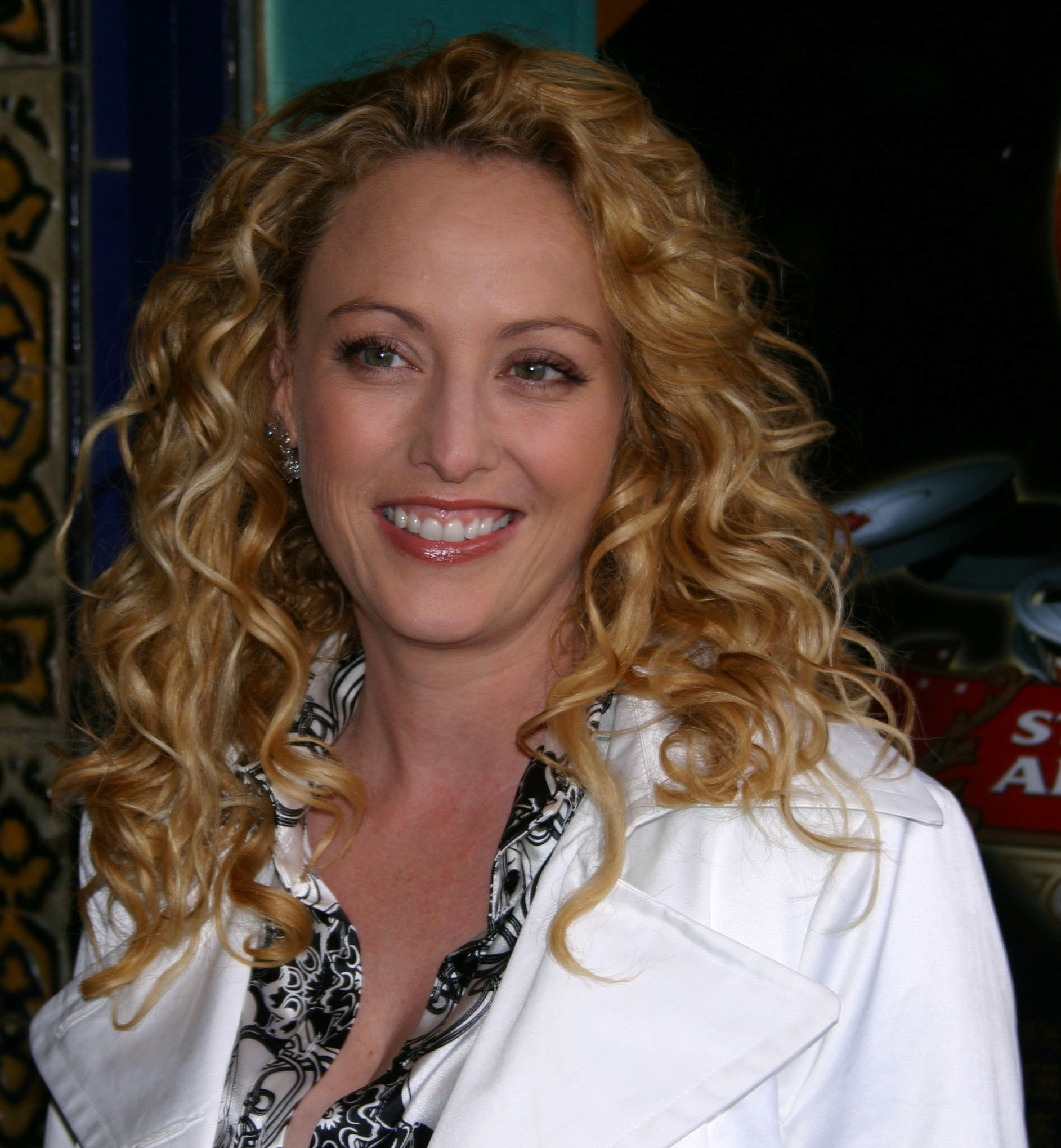 Virginia Madsen at the San Francisco International Film Festival